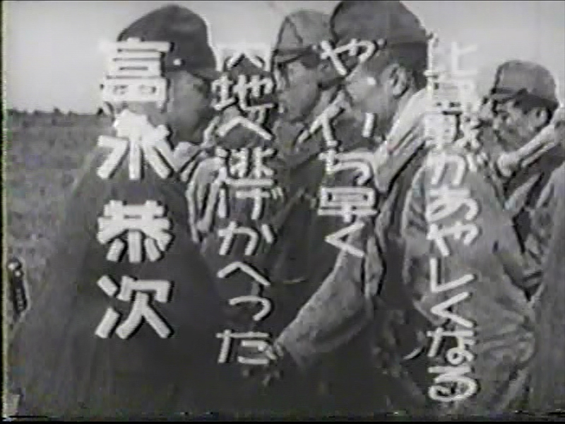 Kyōji Tominaga (General cowardly of the Imperial Japanese Army) from "A Japanese Tragedy" (1946 Japanese film)